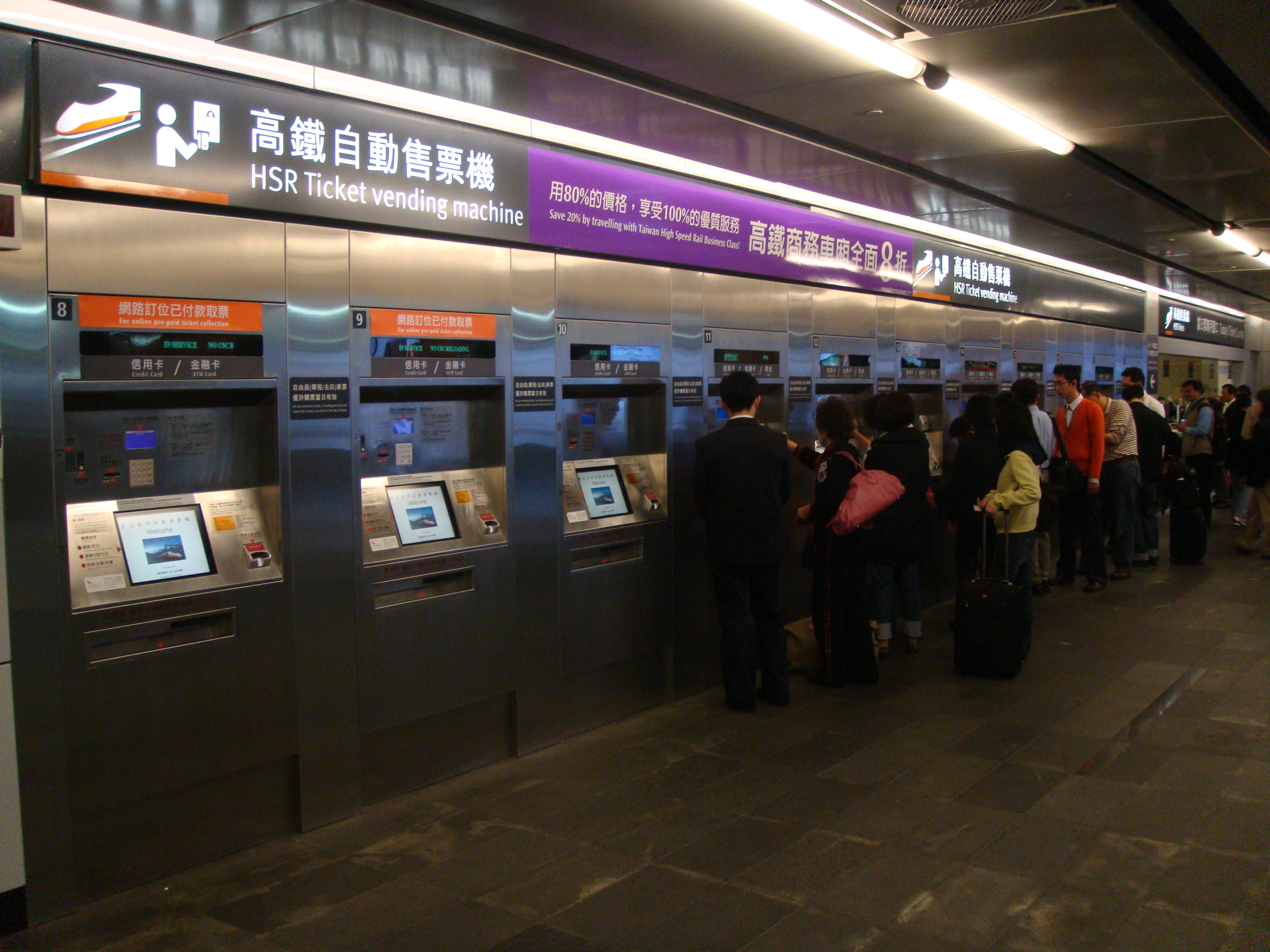 High Speed Rail Ticketing Machines, Taipei Main Station, Taiwan.